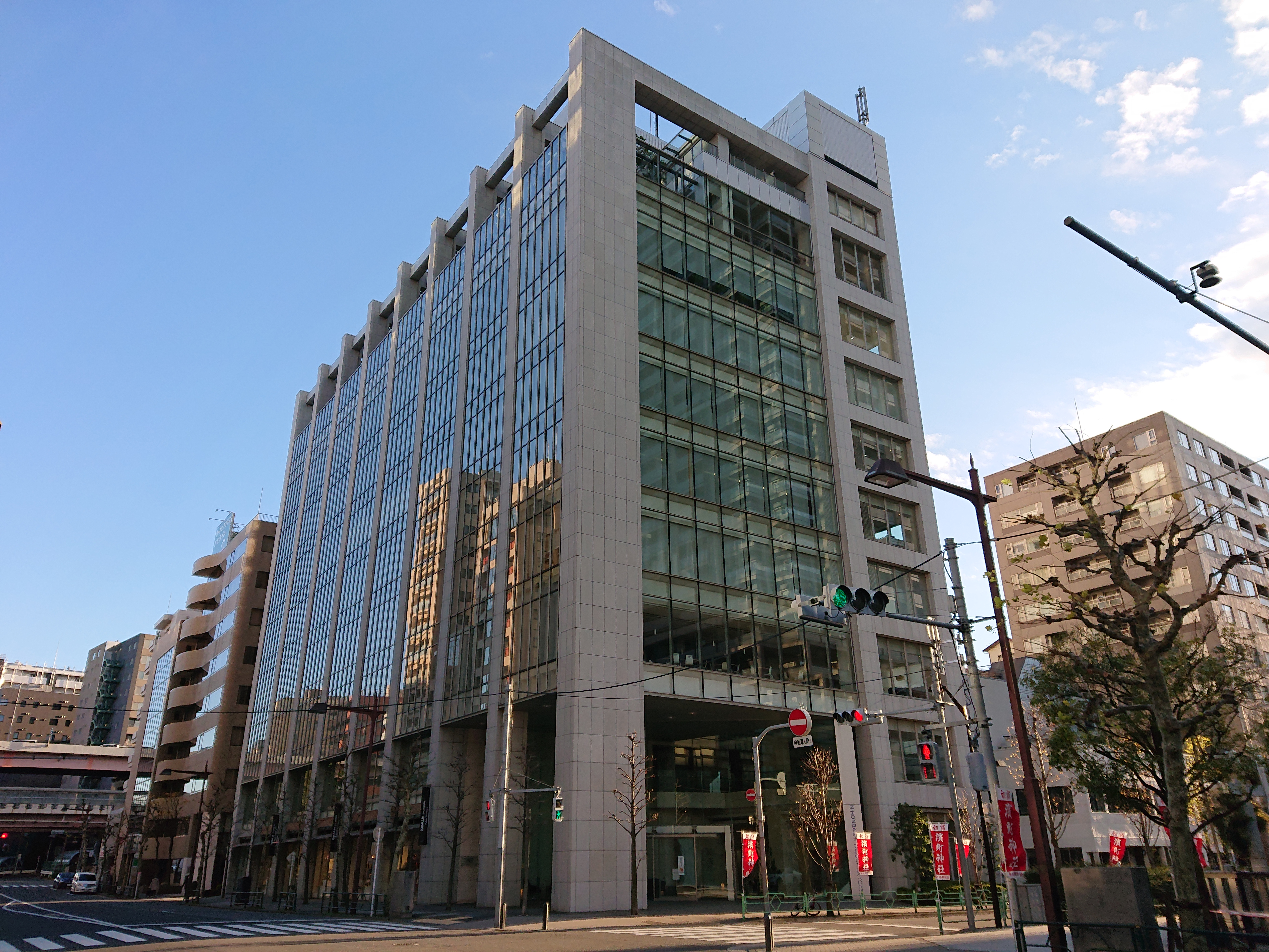 Nihonbashi Yasuda Skygate Building (日本橋安田スカイゲートビル), located at 3-15-1 Nihonbashi-Hamacho, Chuo, Tokyo, Japan